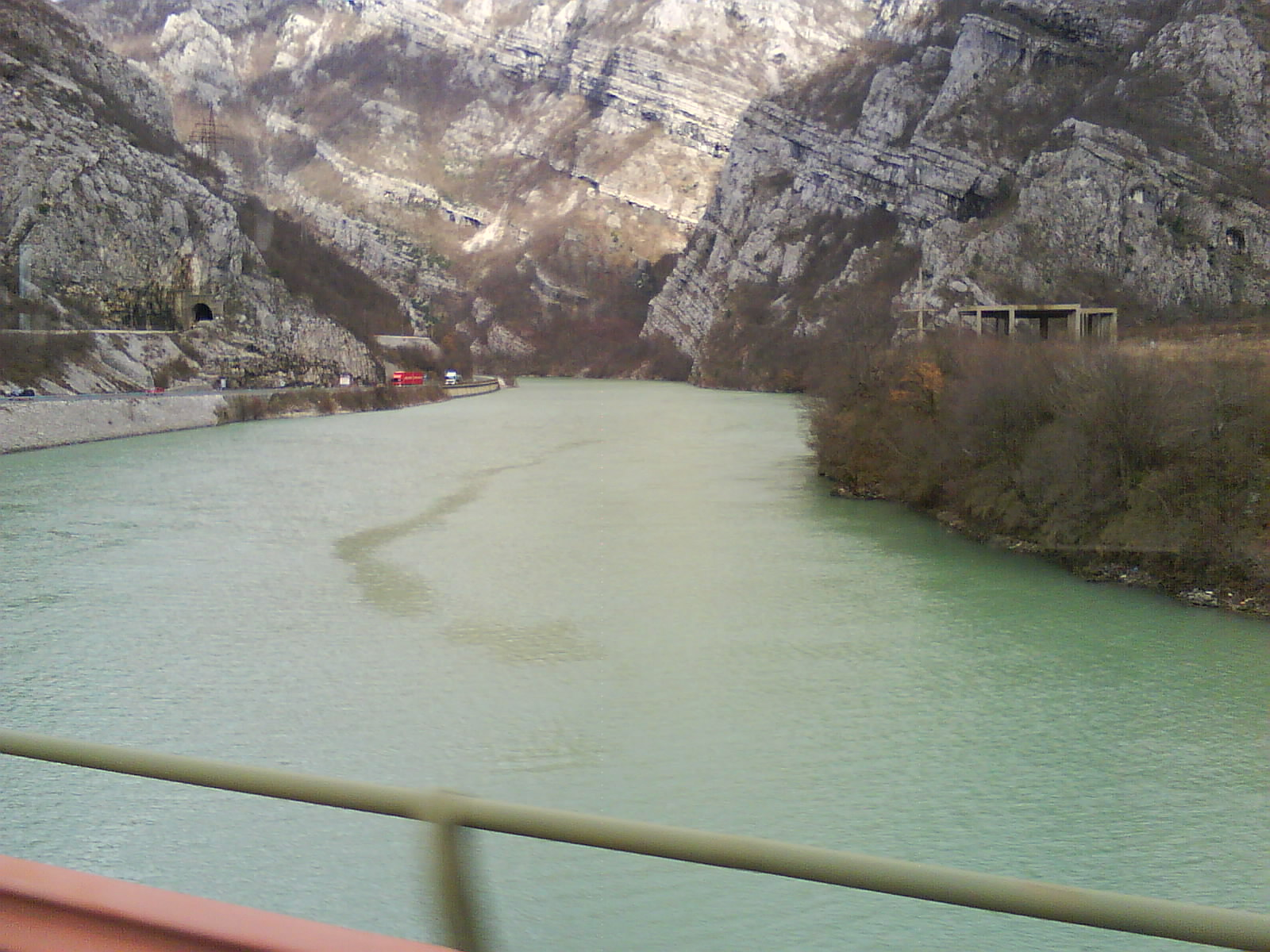 Jablanica lake nearby city Jablanica